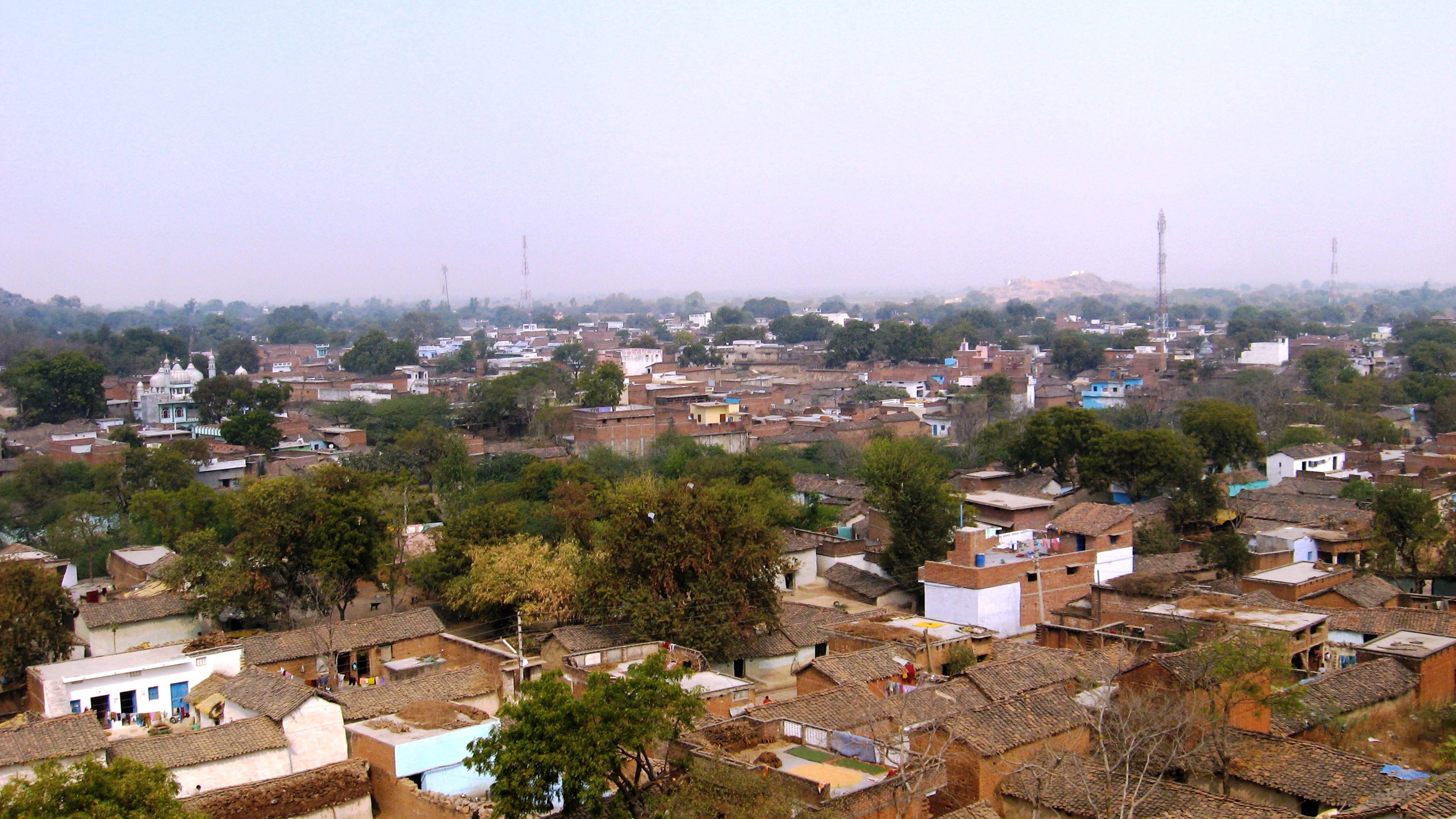 Bird's eye view of city of Kulpahar.